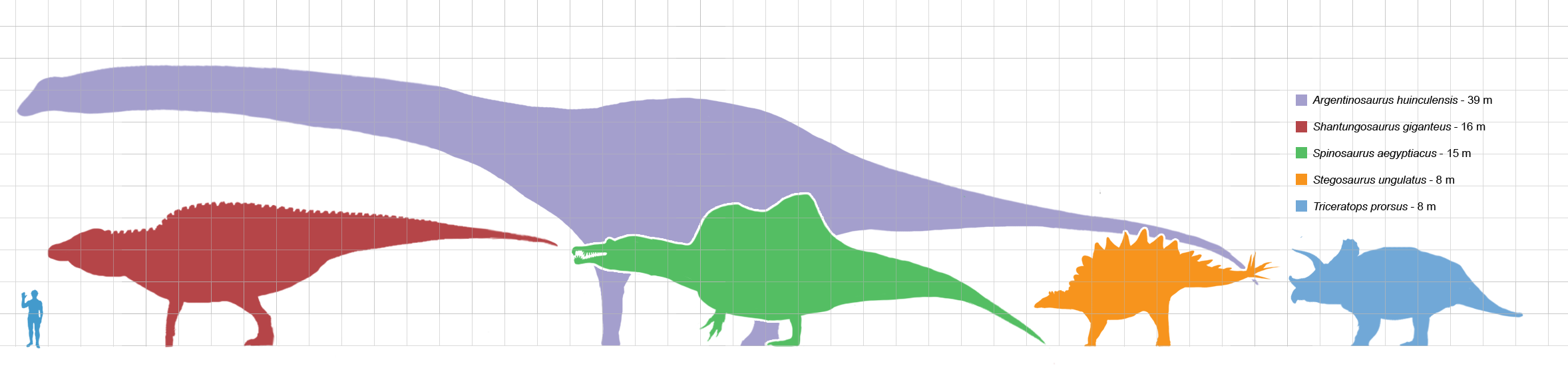 Scale diagram of the largest known dinosaurs (length and mass) of five major clades: Sauropoda (Argentinosaurus huinculensis) Ornithopoda (Shantungosaurus giganteus) Theropoda (Spinosaurus aegyptiacus) Thyreophora (Stegosaurus ungulatus) Marginocephalia (Triceratops prorsus) Compared in size with a human. Each grid section represents 1 square meter. Scale based on Paul 2010[1] and Carpenter 2006.[2]